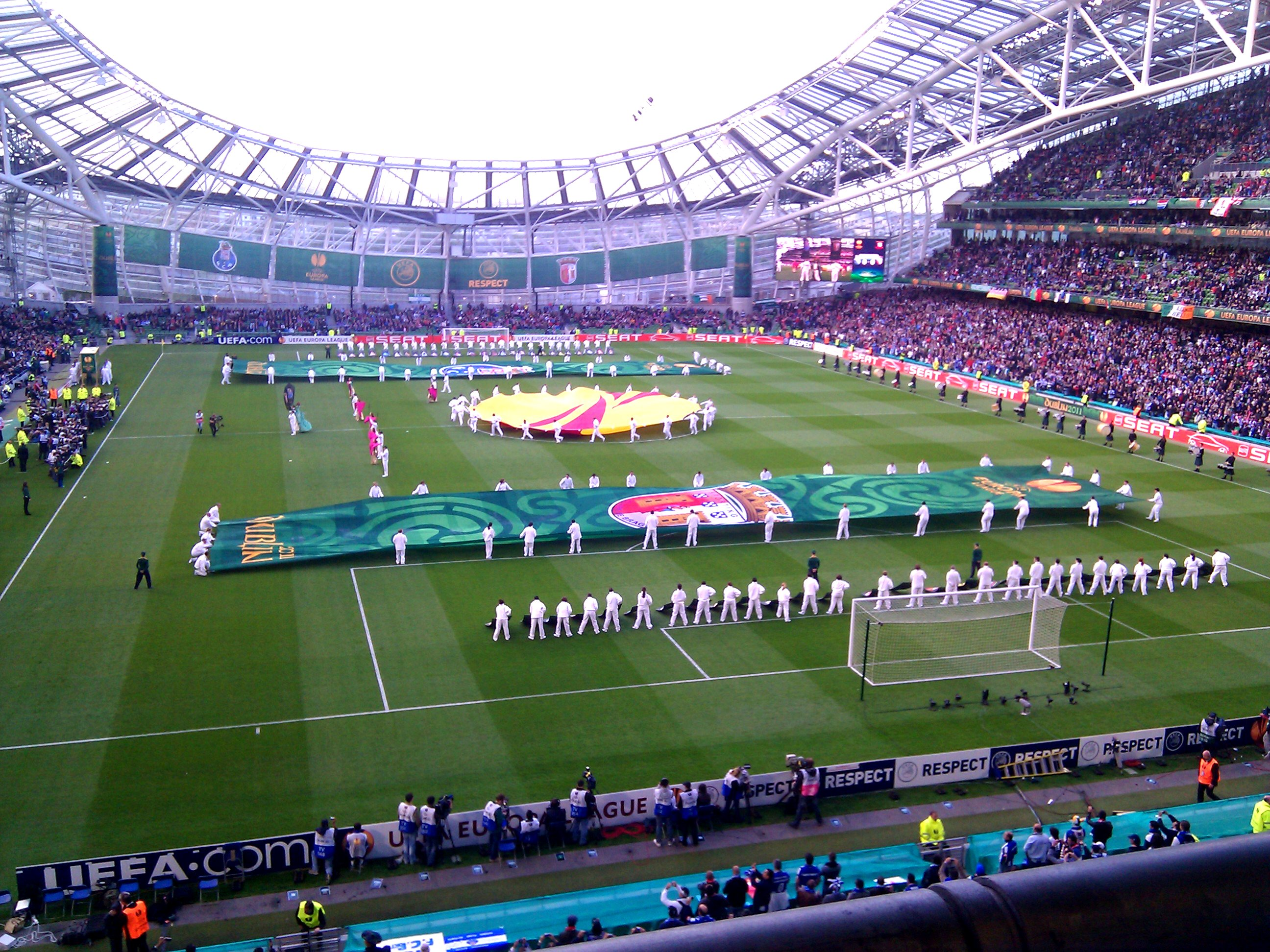 Opening ceremony before the kickoff of the 2011 UEFA Europa League Final between Portuguese sides F.C. Porto and S.C. Braga, held on 18 May at the Aviva Arena in Dublin, Ireland.